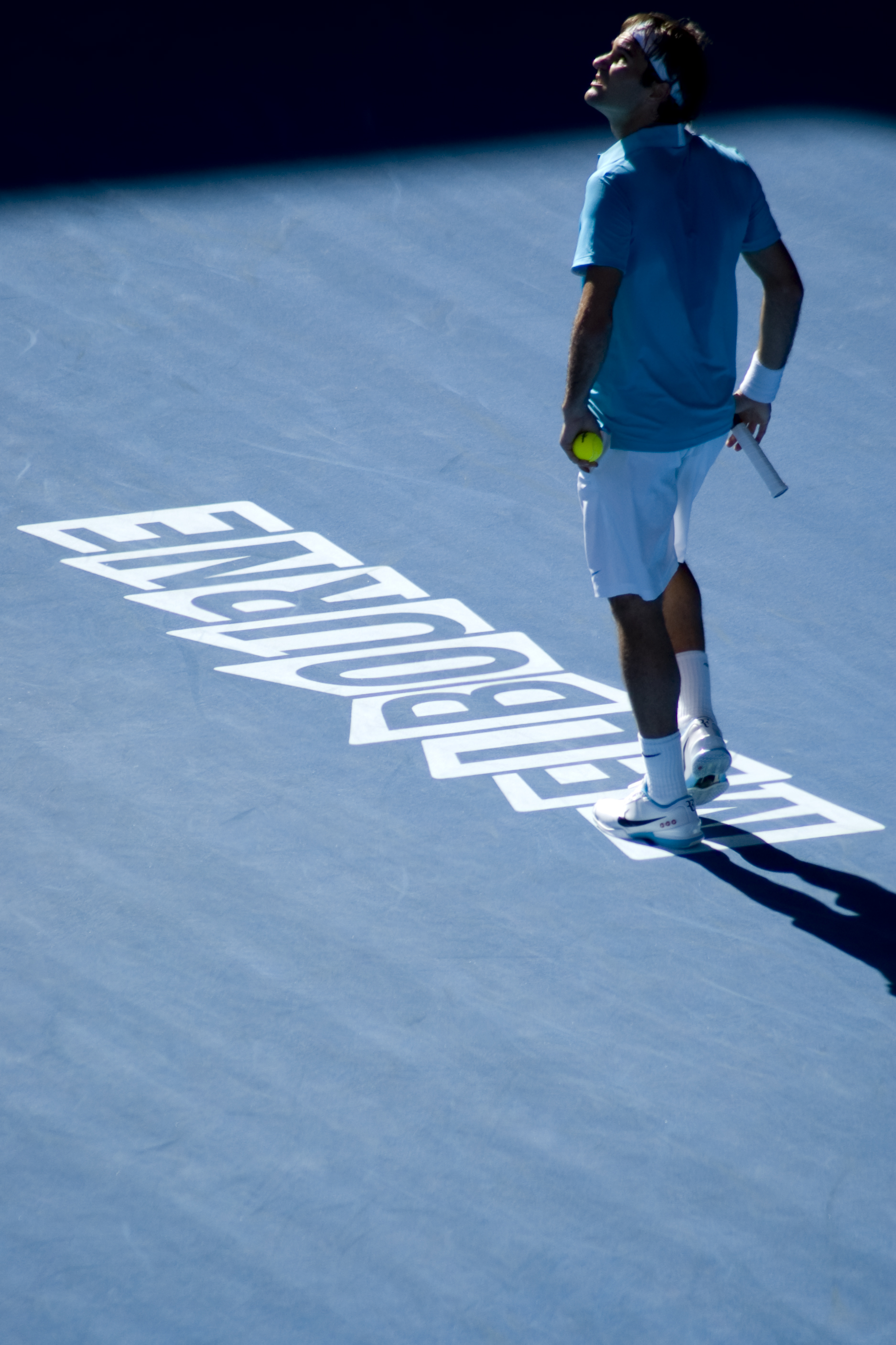 Taken at the Australian Open 2010